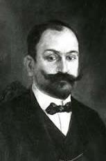 Elio Morpurgo (1858-1944), Italian politician, deputy and senator. Portraited by Domenico Failutti (1872-1923)